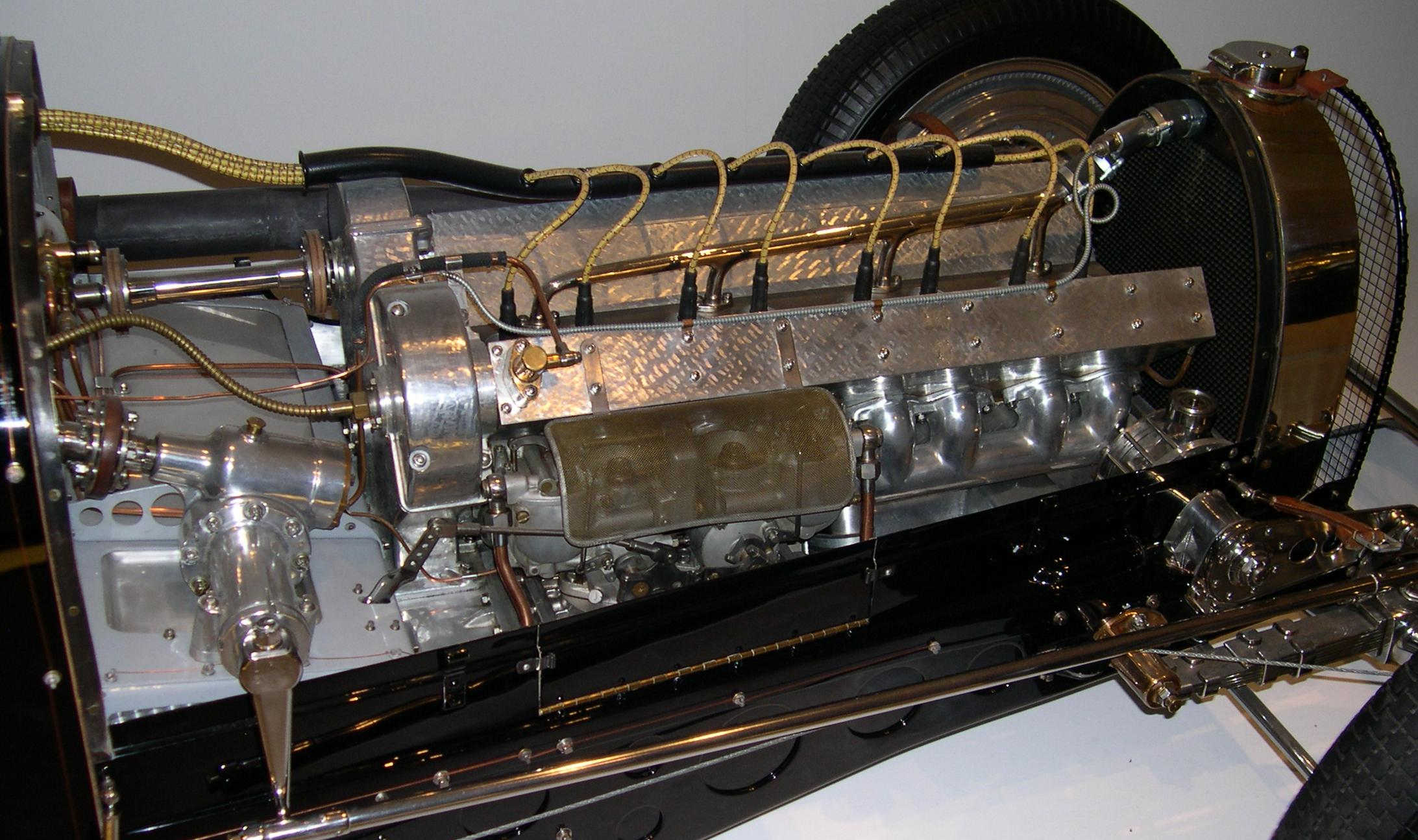 1933 Bugatti Type 59 Grand Prix From the Ralph Lauren collection on display at the Boston Museum of Fine Arts. Photo taken in 2005.